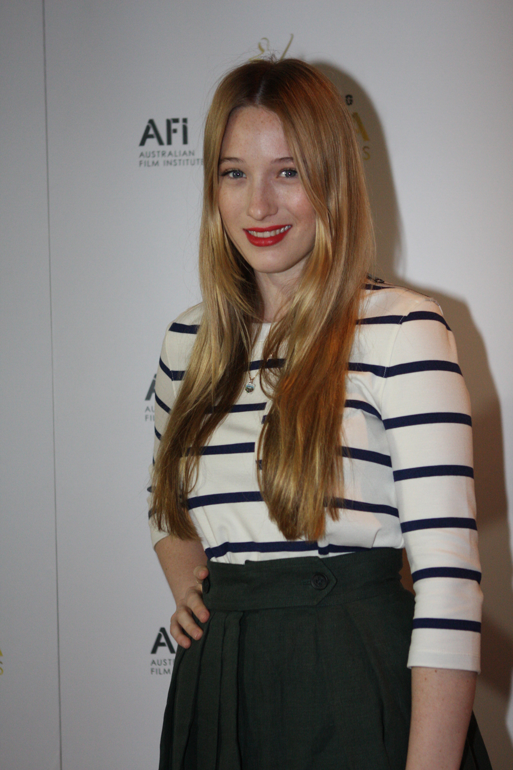 Sophie Lowe, 2012, AACTA Awards Results From Sydney, Australia.